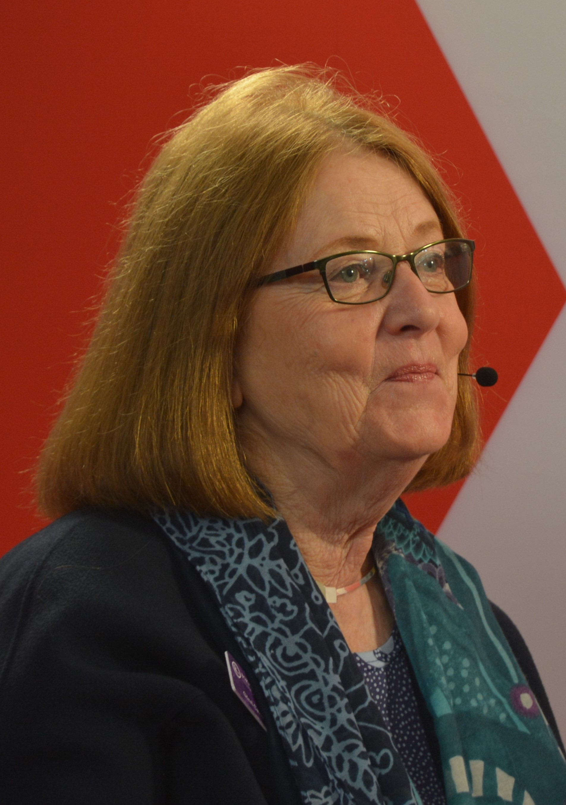 Görel Cavalli-Björkman